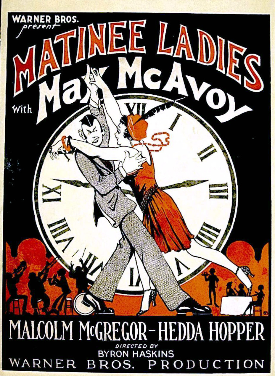 Window poster for the 1927 film Matinee Ladies.